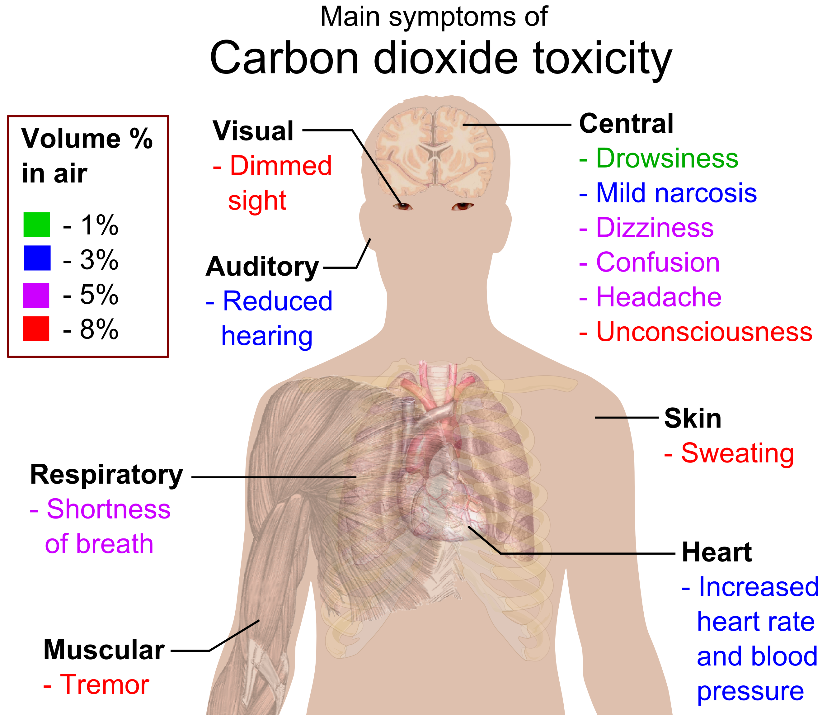 Main symptoms of carbon dioxide toxicity (See Wikipedia:Carbon_dioxide#Toxicity). References: Toxicity of Carbon Dioxide Gas Exposure, CO2 Poisoning Symptoms, Carbon Dioxide Exposure Limits, and Links to Toxic Gas Testing Procedures By Daniel Friedman - InspectAPedia Davidson, Clive. 7 February 2003. "Marine Notice: Carbon Dioxide: Health Hazard". Australian Maritime Safety Authority. To discuss image, please see Template talk:Human body diagrams